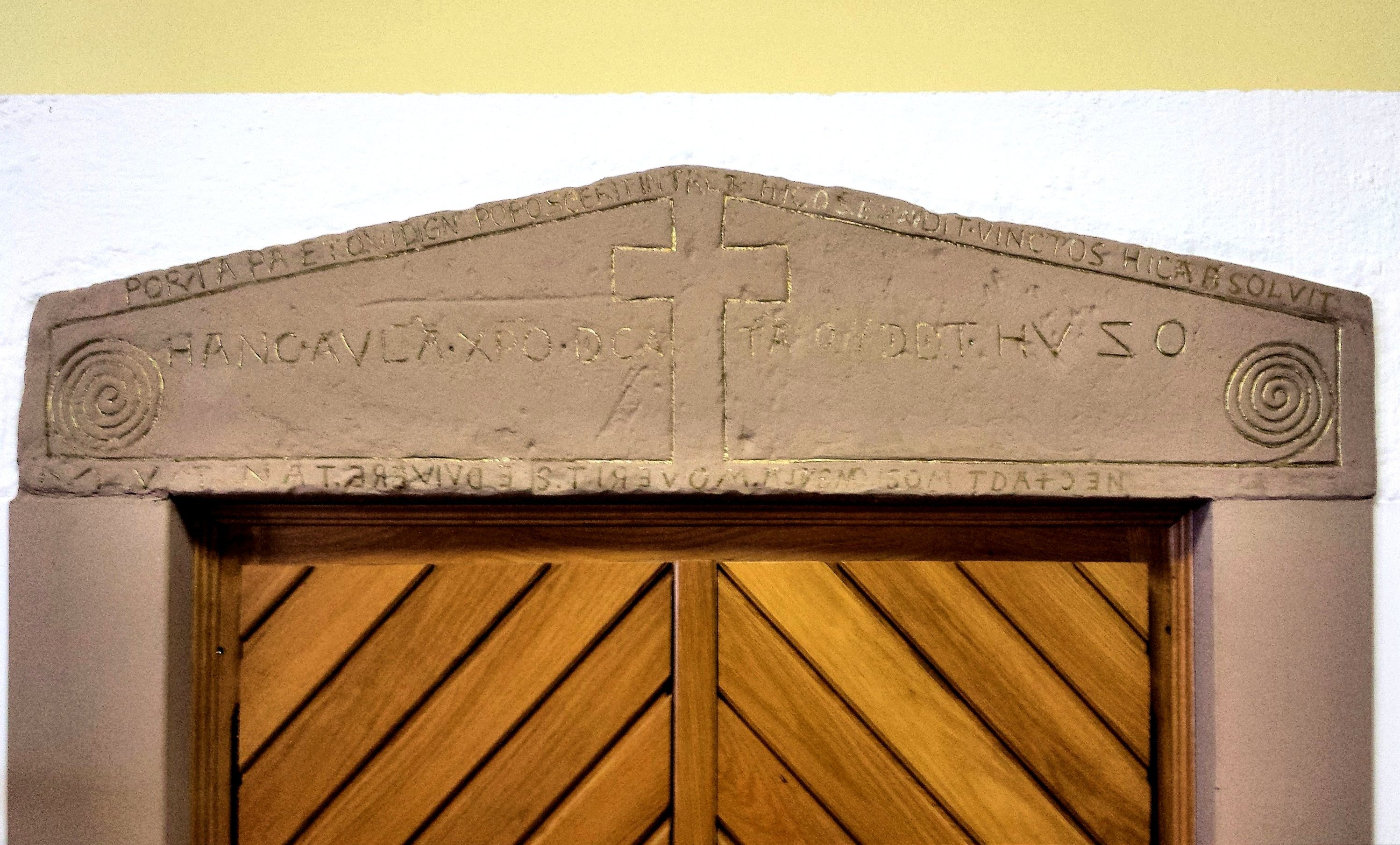 Portalhead of the former Saint Nicholas Chapelle in Klotten built around 1040 by Huso a Ministry of Richeza of Polen